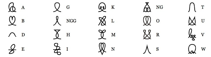 The letters of the Avoiuli script of Vanuatu